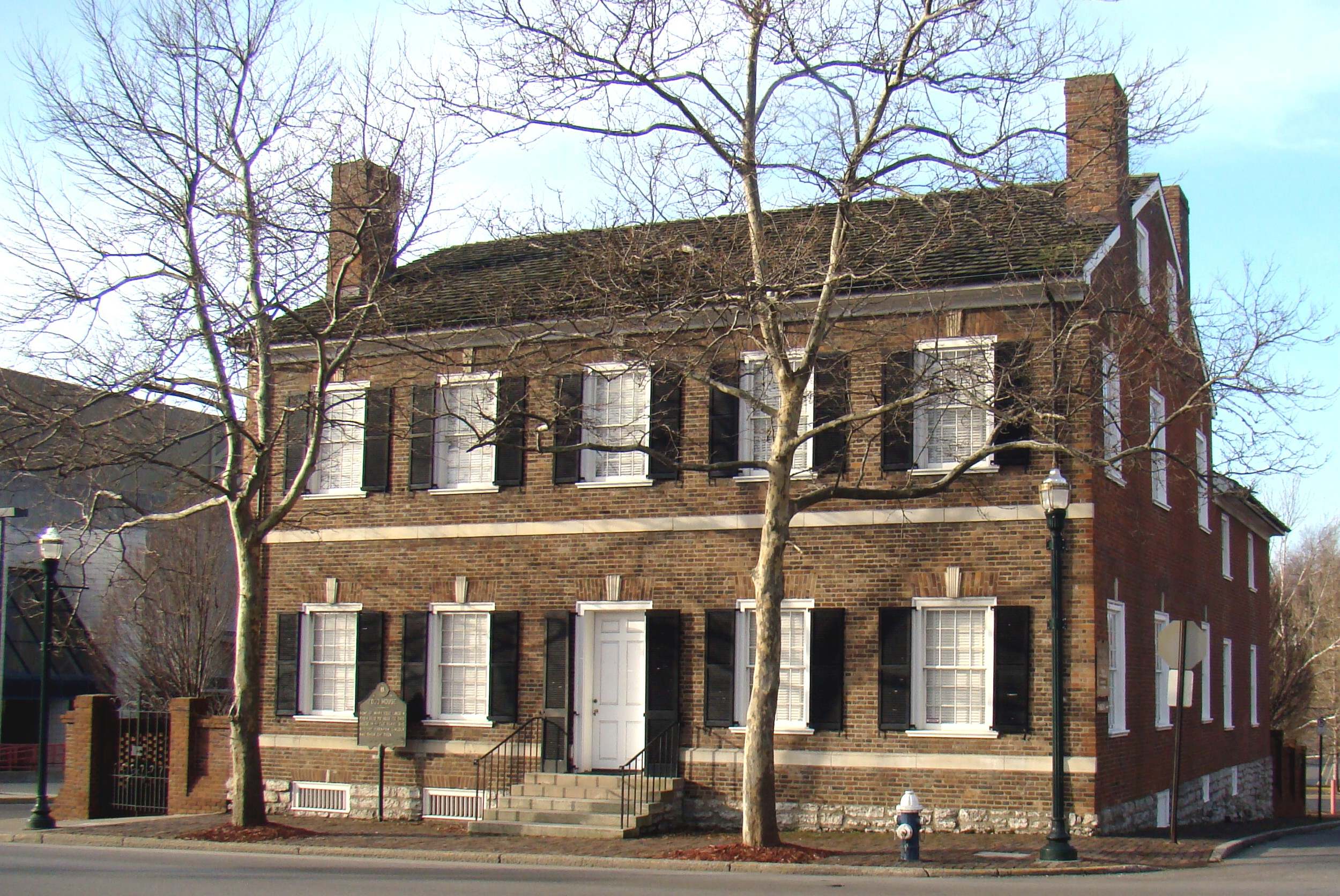 Childhood home of First Lady Mary Todd Lincoln located in Lexington, Kentucky. The current address is 578 West Main Street, Lexington, Kentucky.